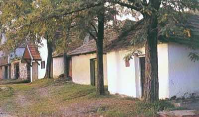 Old Vineyards in Szűcsi, Hungary